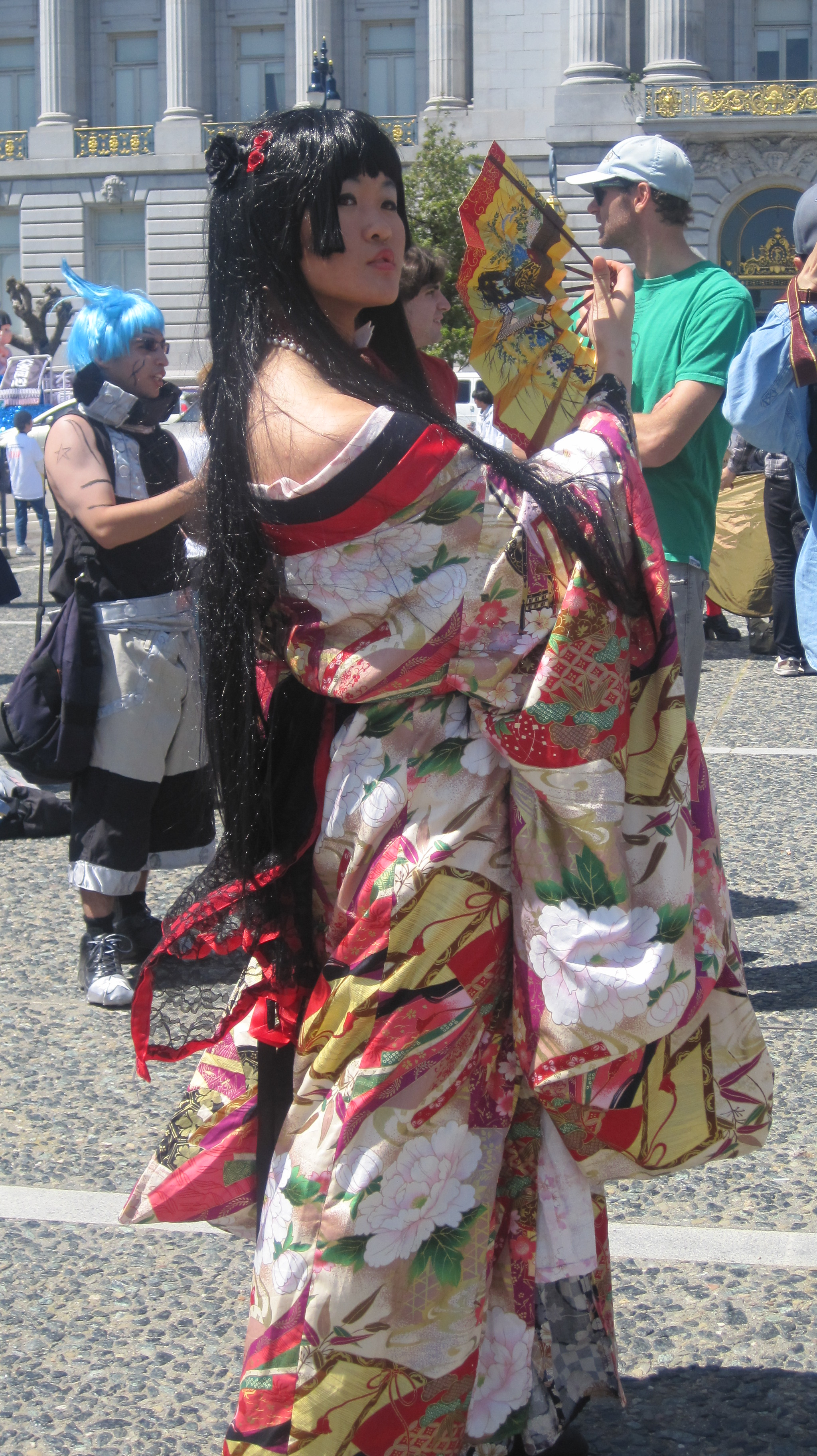 A cosplayer portraying Yuko Ichihara from xxxHolic at the 2010 Northern California Cherry Blossom Festival.